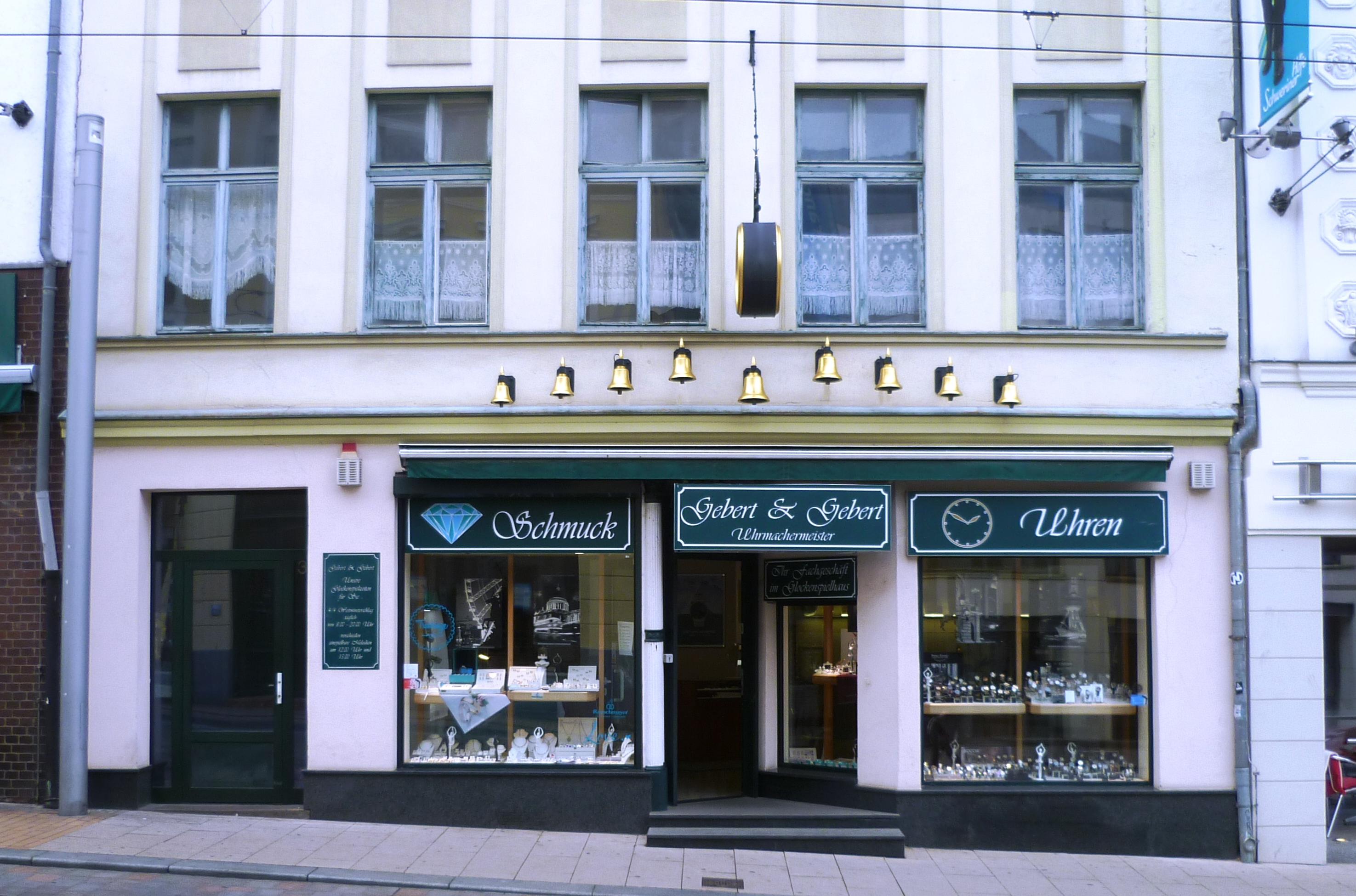 The watch and jewellery shop Gebert & Gebert in building Lübecker Strasse 3 in Schwerin in Mecklenburg-Vorpommern. Carillon: Eight bells daily ring on 12 and 15 with different melodies.